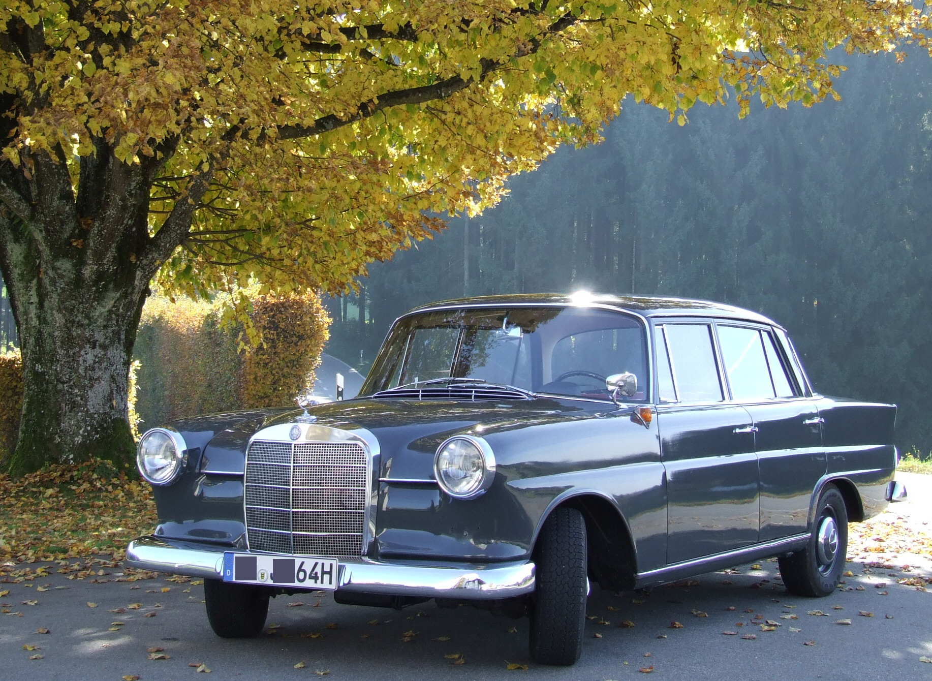 This picture shows an 1964 Mercedes-Benz W110 190c Fintail in Standard Configuration without the optional Foglights.